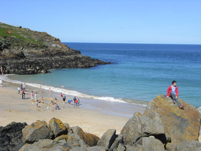 Porthgwidden Beach I like to have people in some of my shots but I did ponder whether to use this one. However, I don't think anybody is recognisable and the boy on the right adds a certain something.